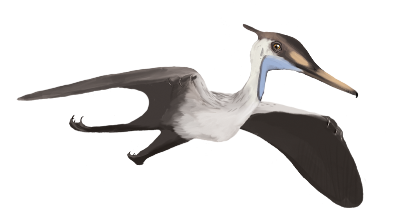 Life restoration of the pterodactyloid specimen MCZ 1505 (Aerodactylus scolopaciceps).